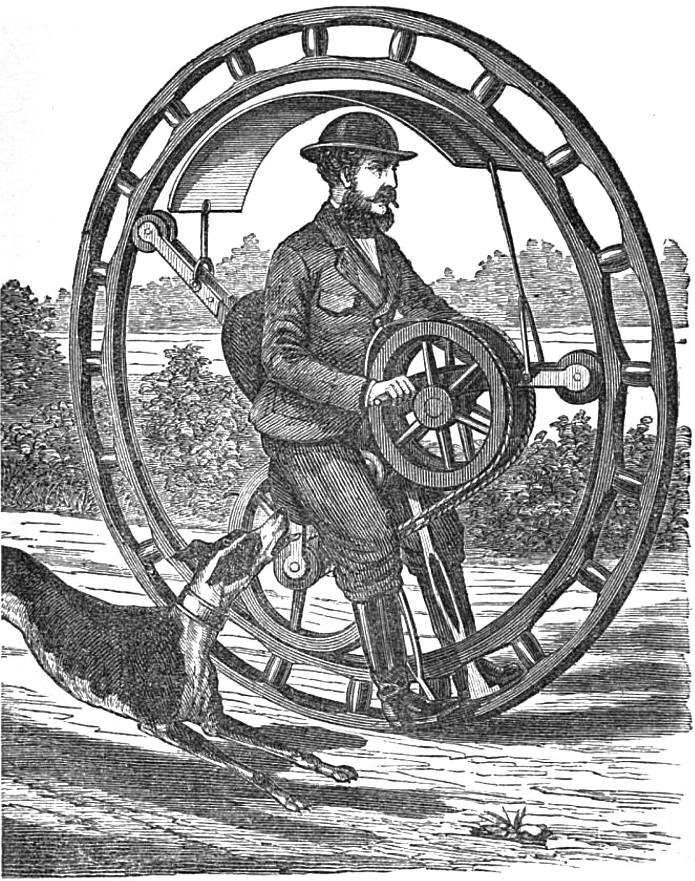 Hemming's Unicycle. The velocipede: its history, varieties, and practice, author J. T. Goddard, page 77 in chapter Hemming's Unicycle, or "Flying Yankee Velocipede". Extract from page 76: "Richard C. Hemming of New Haven, Conn., invented the machine herewith represented, two years ago; but has only recently brought it into the market and applied it to practical purposes." Extract from page 78: "wheel is of a diameter of from six to eight feet."